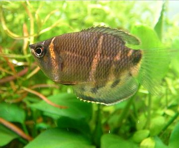 Sphaerichthys osphromenoides - The chocolate gourami, a delicate yet highly prized freshwater fish for the home aquarium.